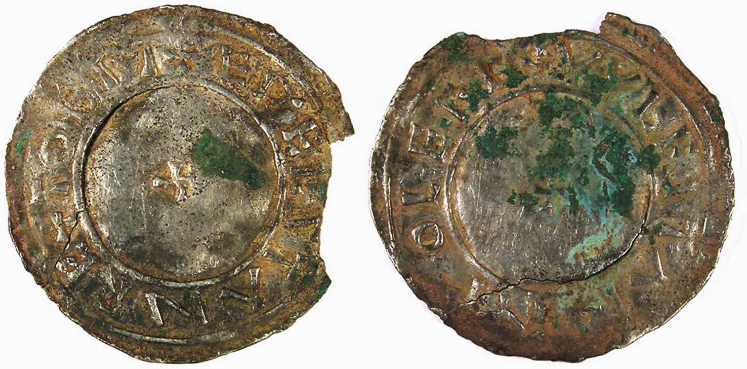 Early medieval silver hammered penny of Aethelstan I dating from c. AD924/5-939. Mint: Chester. Moneyer: Wulfstan. Circumscription cross issue. North 672.